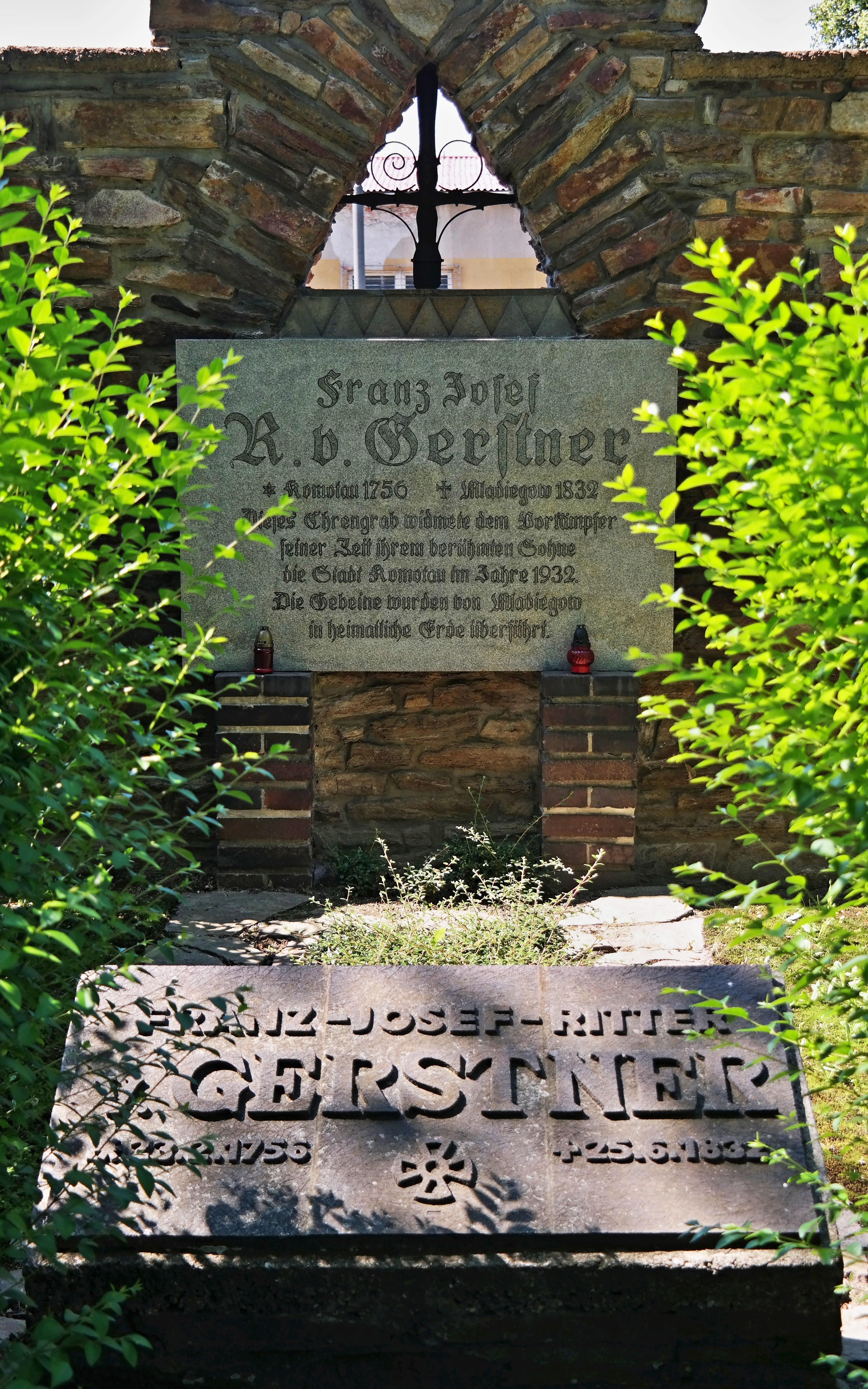 Gravestone of F. J. Gerstner in Chomutov, Czech Republic